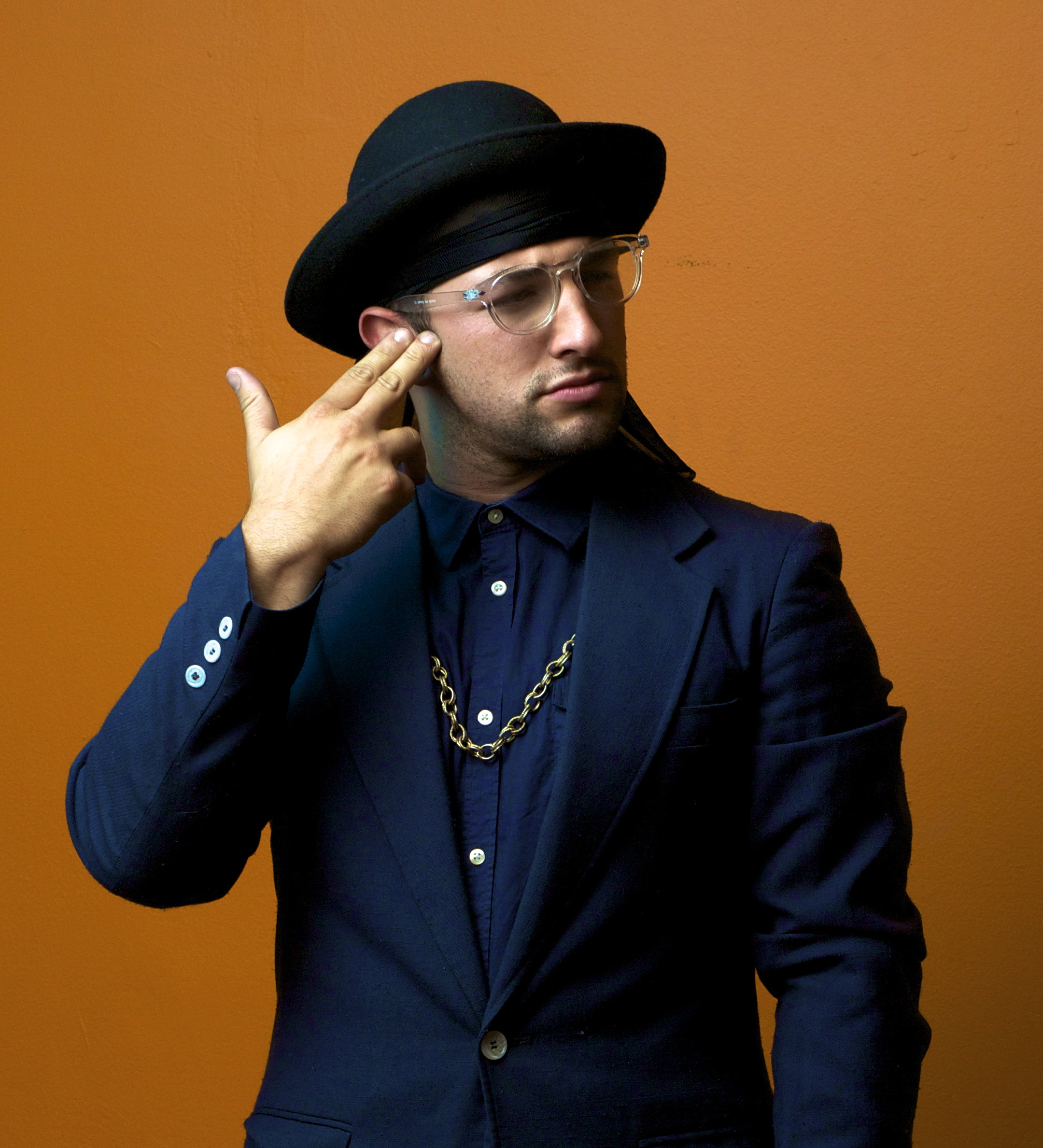 I took this photo of Hammy Down Versace at YoungInc Studios in Glendale California.